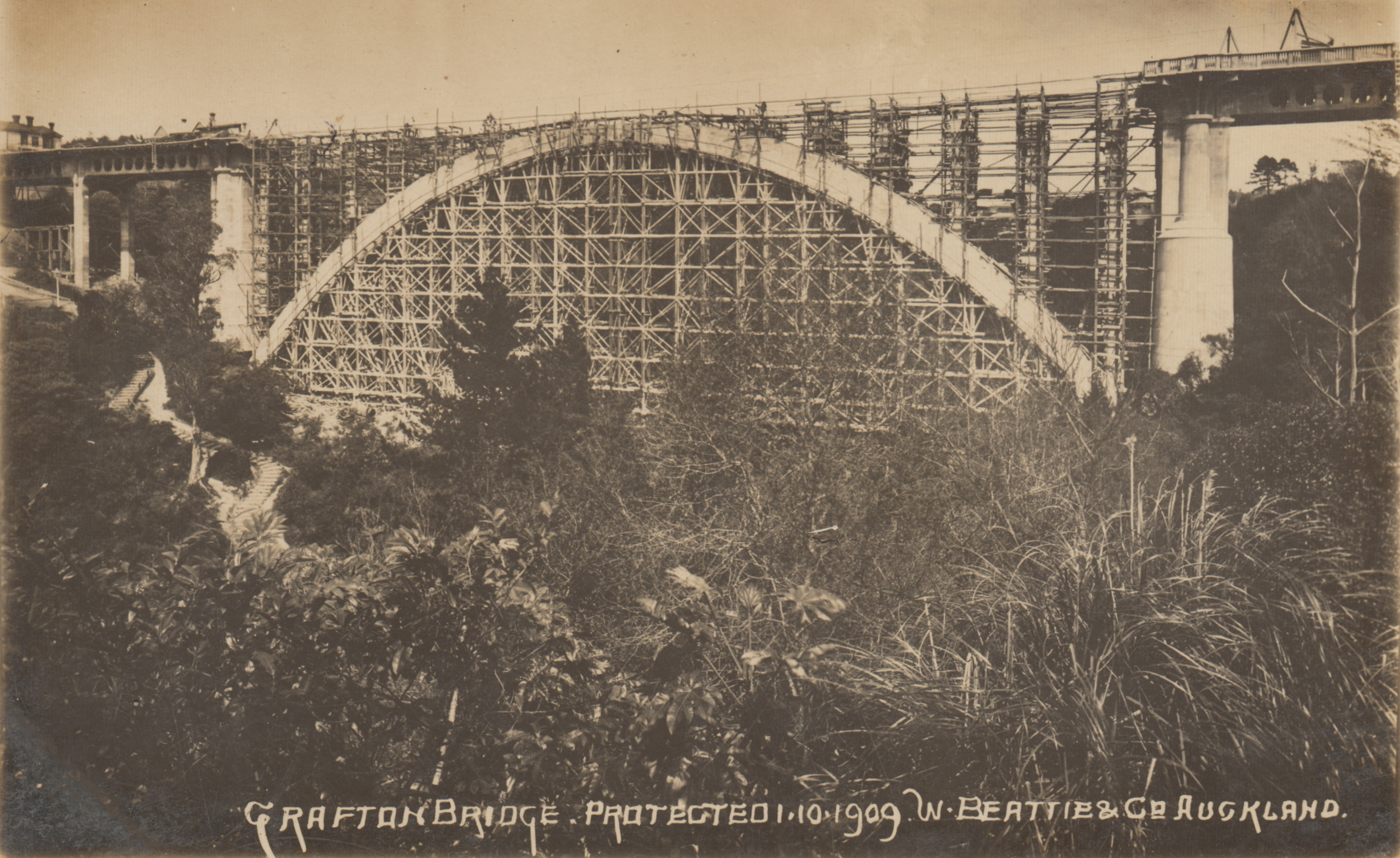 Photograph of Grafton Bridge during construction, with scaffolding beneath the single main arch